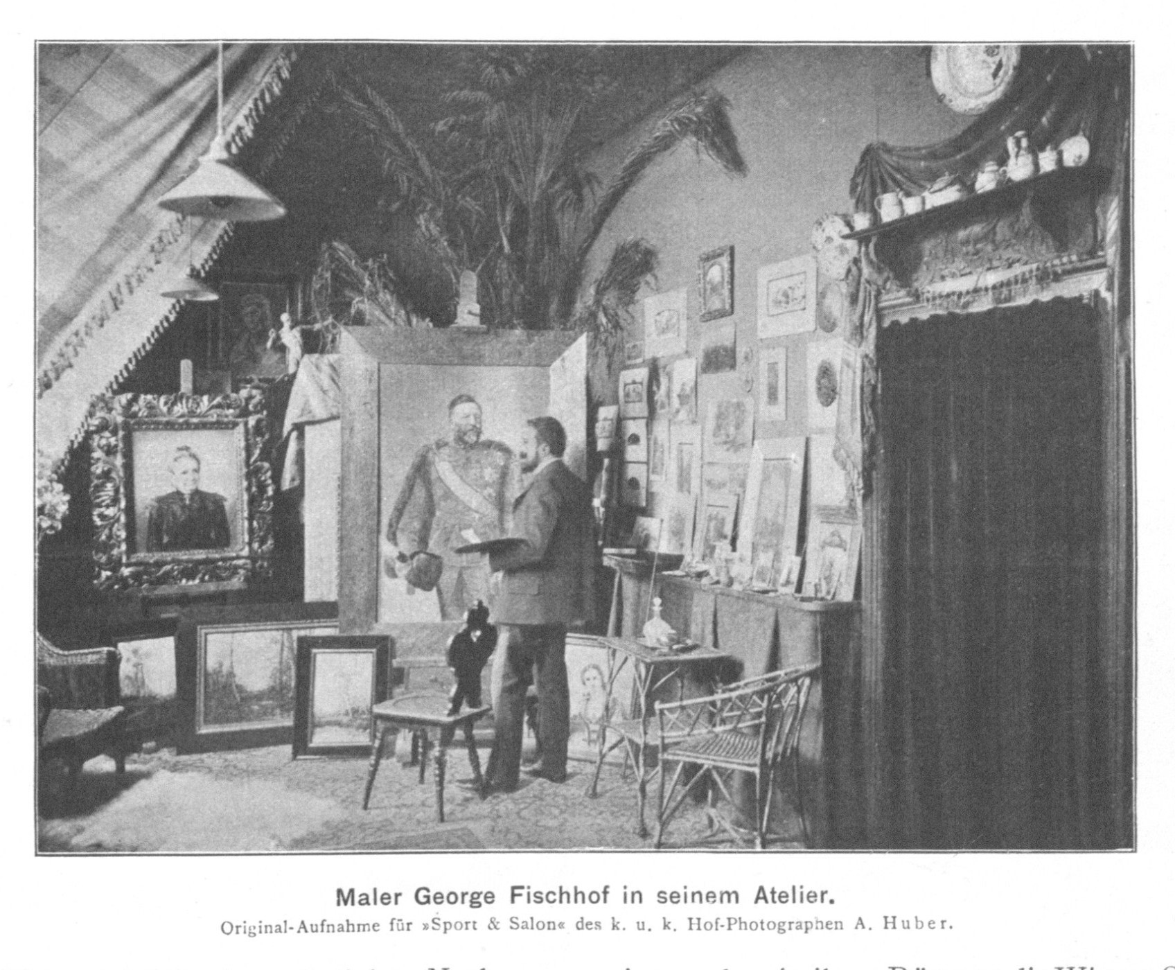 Painter Georg Fischhof (1849-1914) in his studio